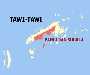 Map of the Tawi-Tawi showing the location of Panglima Sugala